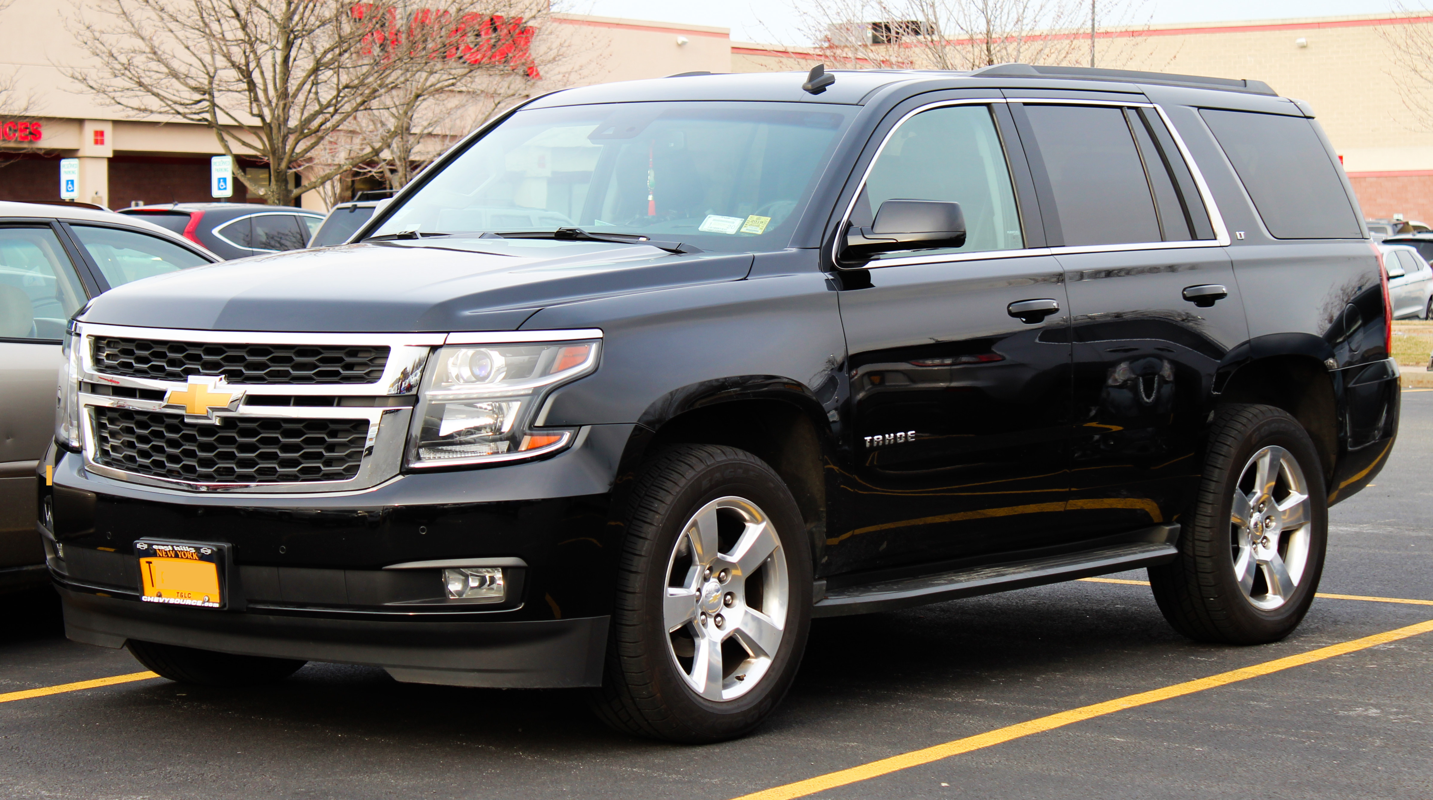 A 2015 Chevrolet Tahoe LT 5.3L photographed in College Point, Queens, New York, USA